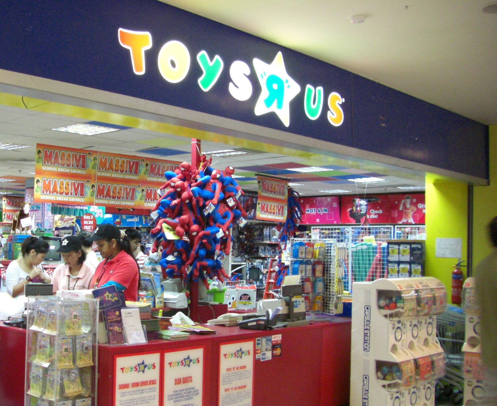 Toys "R" Us store at United Square Shopping Mall, Singapore.